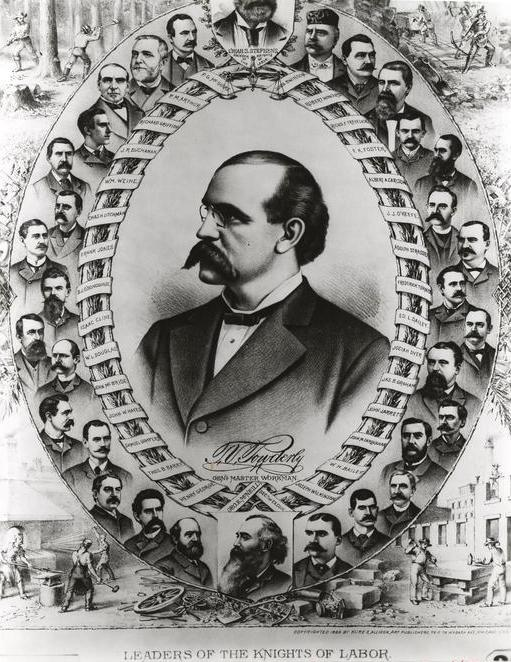 Terrence Vincent Powderly Photographic Prints Scanning Device: Epson Expression 1640XL Resolution: TIFF 300 dpi Bit-depth: 24 bit color Compression: TIFF: none; JPEG: medium